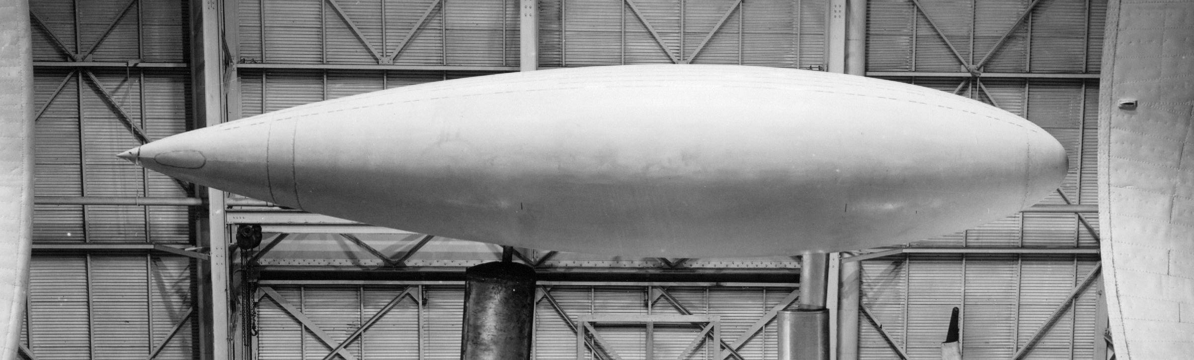 One fith model of the basic hull of the submarine Albacore, tested in the full scale windtunnel of Langley, NACA. For the data of these tests, see the NACA Research Memorendum "Data from tests of a 1/5 scale model of a proposed high-speed submarine in the Langley full-scale tunnel", by Cocke, Lipson and Scallion (